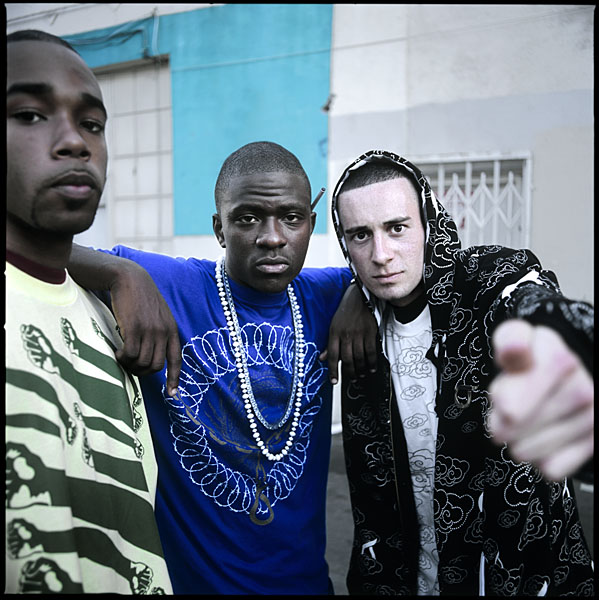 Picture of the LA hip hop trio Custom Made